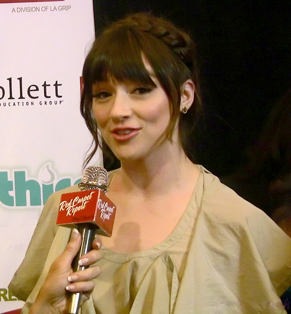 Actress Crystal Reed at the 2010 Thirst Project Gala Red Carpet